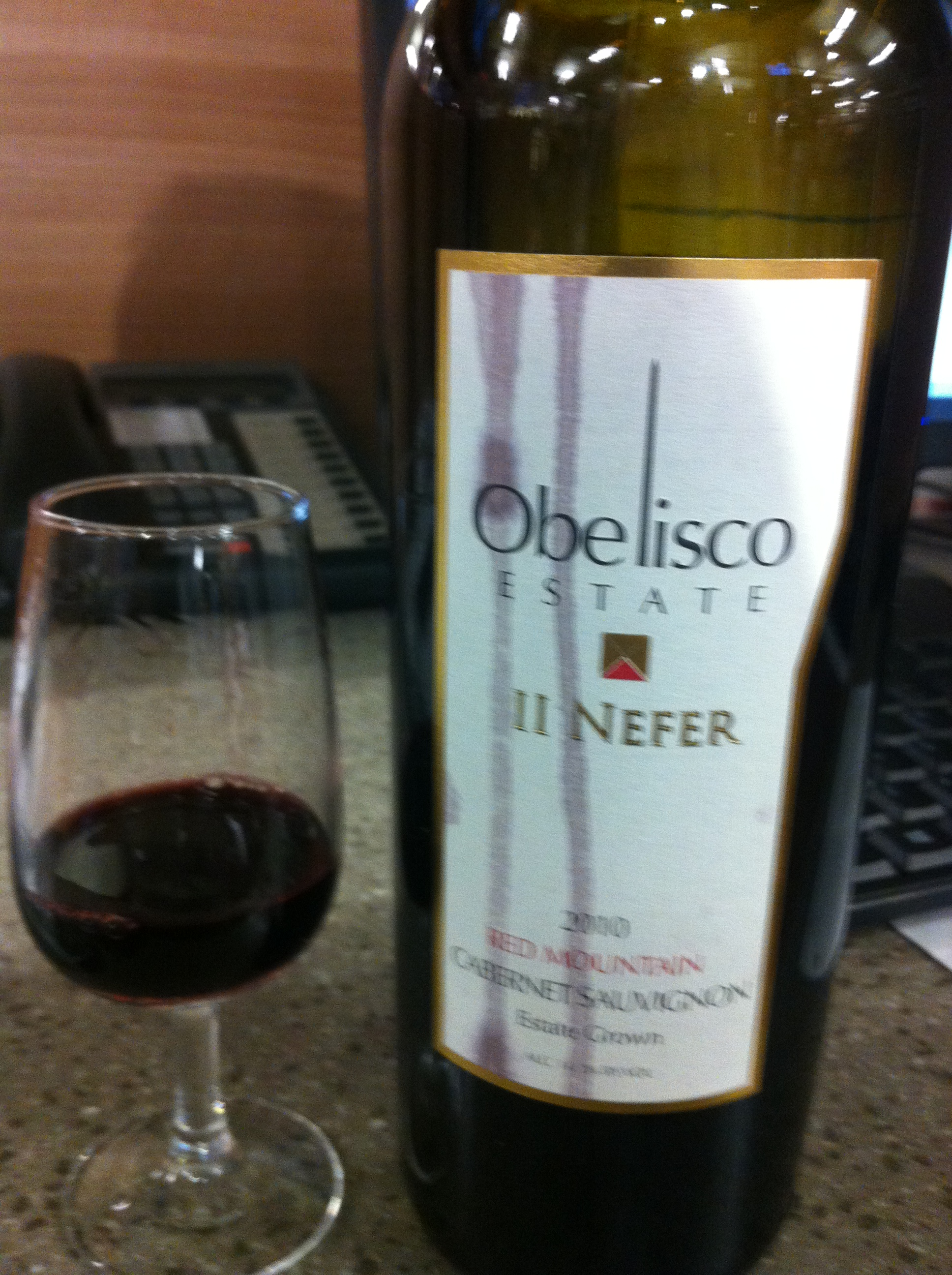 Washington Cabernet Sauvignon from the Red Mountain AVA of the Columbia Valley